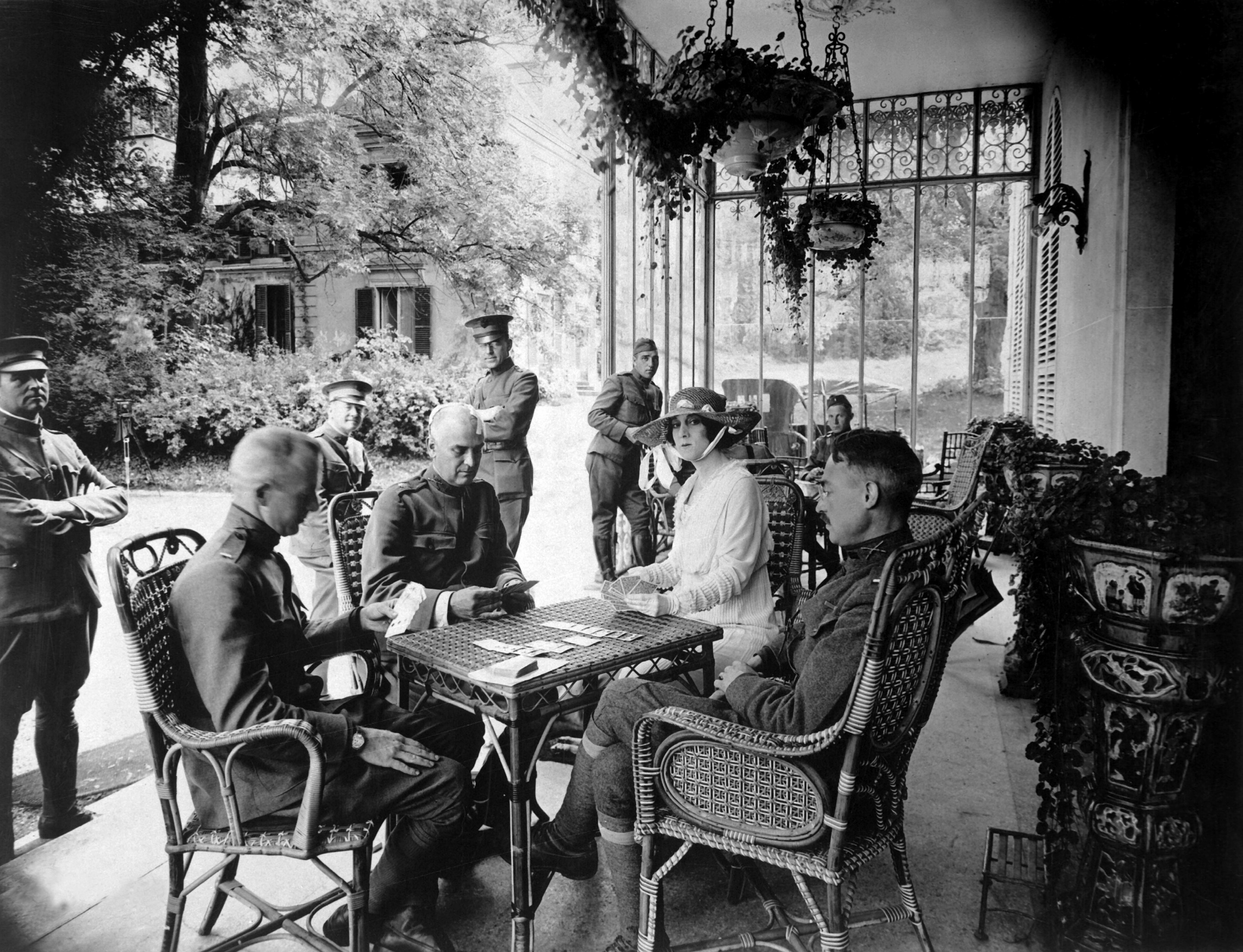 Wounded officers and Mrs. W.E. Corey, wife of the American steel magnate, who has given her home to wounded American officers. A game of bridge in progress on the veranda. Chateau de Villegenis at Palaiseau, France. September 18, 1918. Sgt. R. Sullivan. (Army) NARA FILE #: 111-SC-23400 WAR & CONFLICT BOOK #: 657